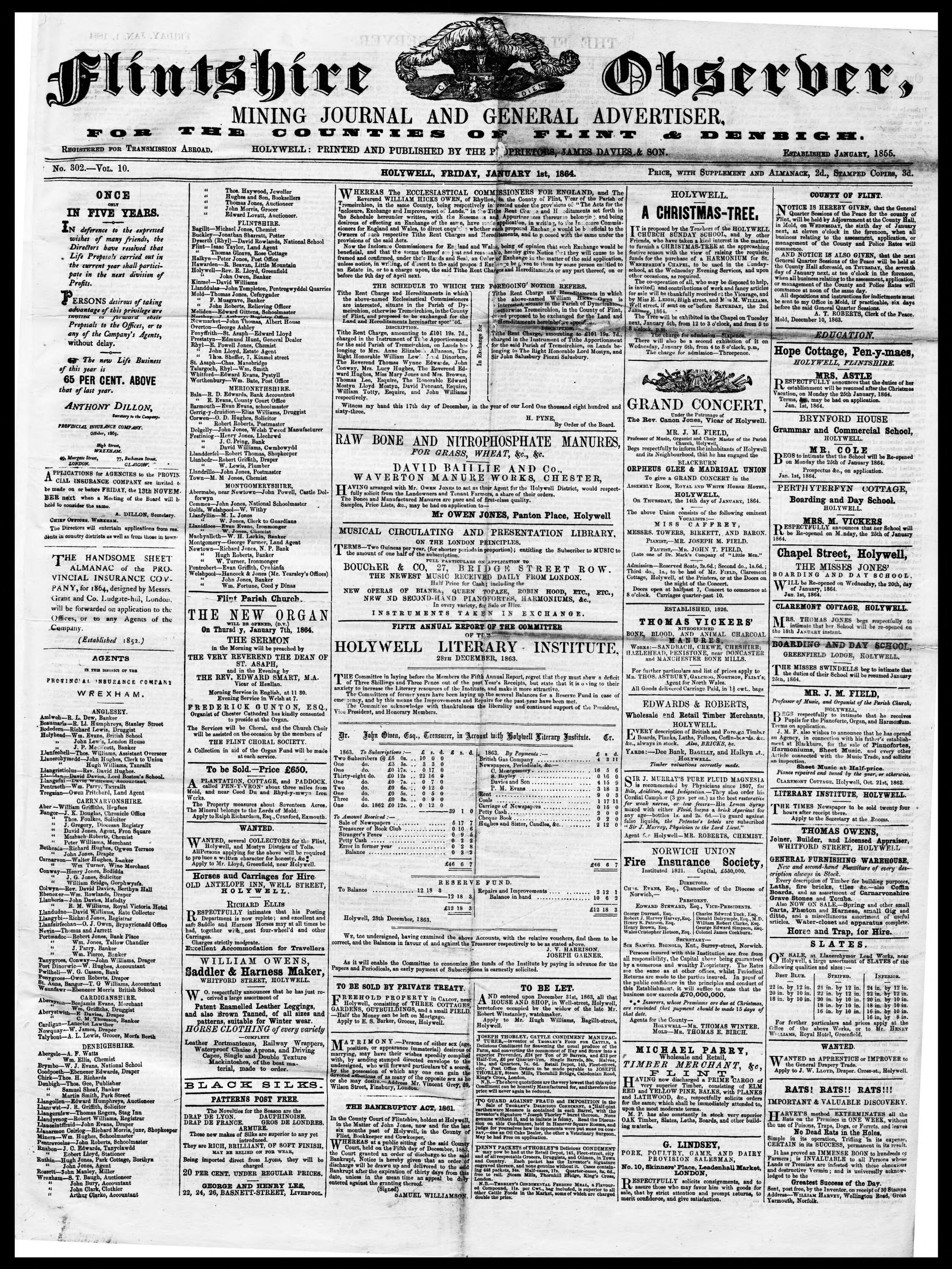 Front page of the earliest surviving copy of the Welsh newspaper Flintshire Observer